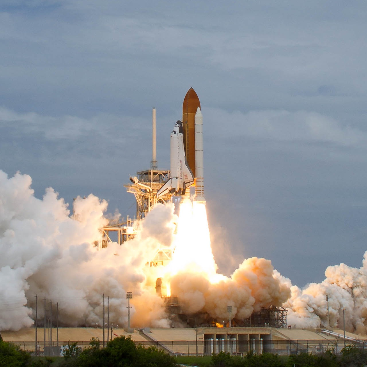 Space shuttle Atlantis is seen as it launches from pad 39A on Friday, July 8, 2011, at NASA's Kennedy Space Center in Cape Canaveral, Florida.